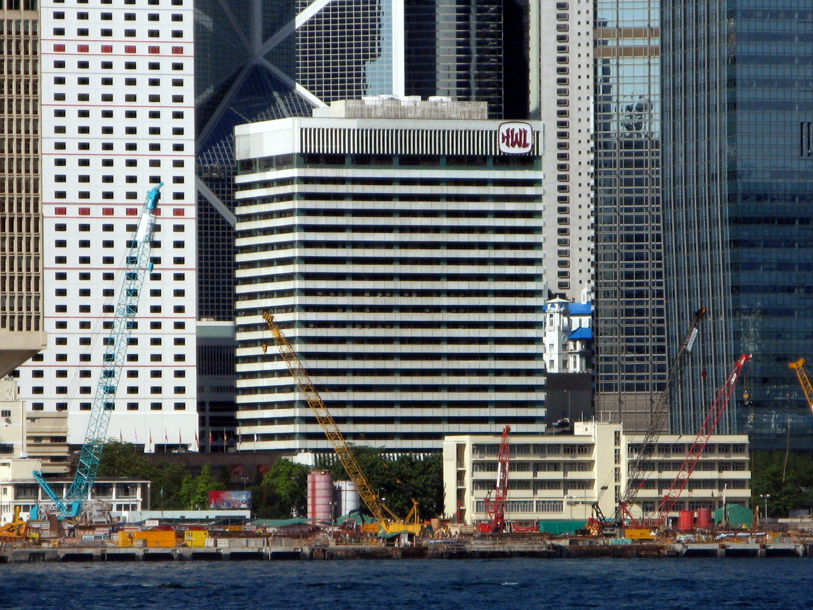 Hutchison House